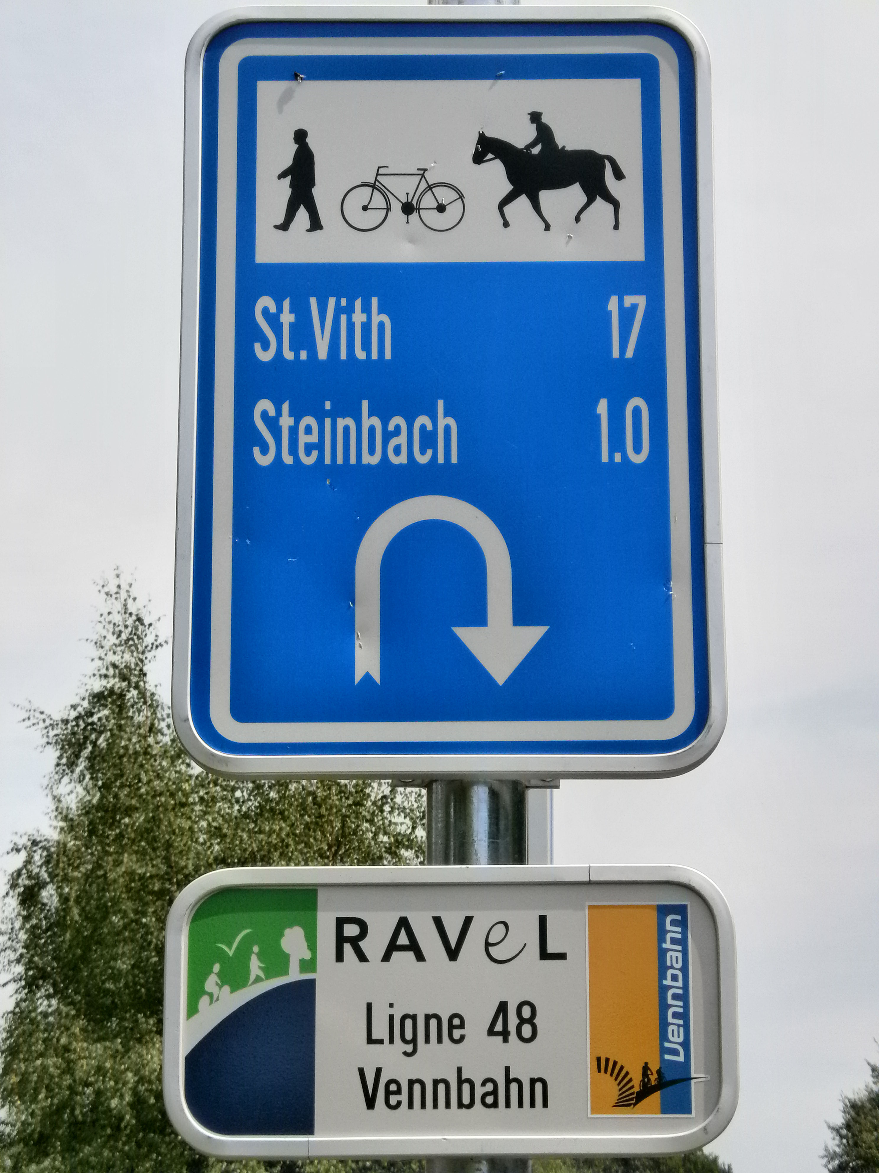 Sign of Vennbahn in Belgium